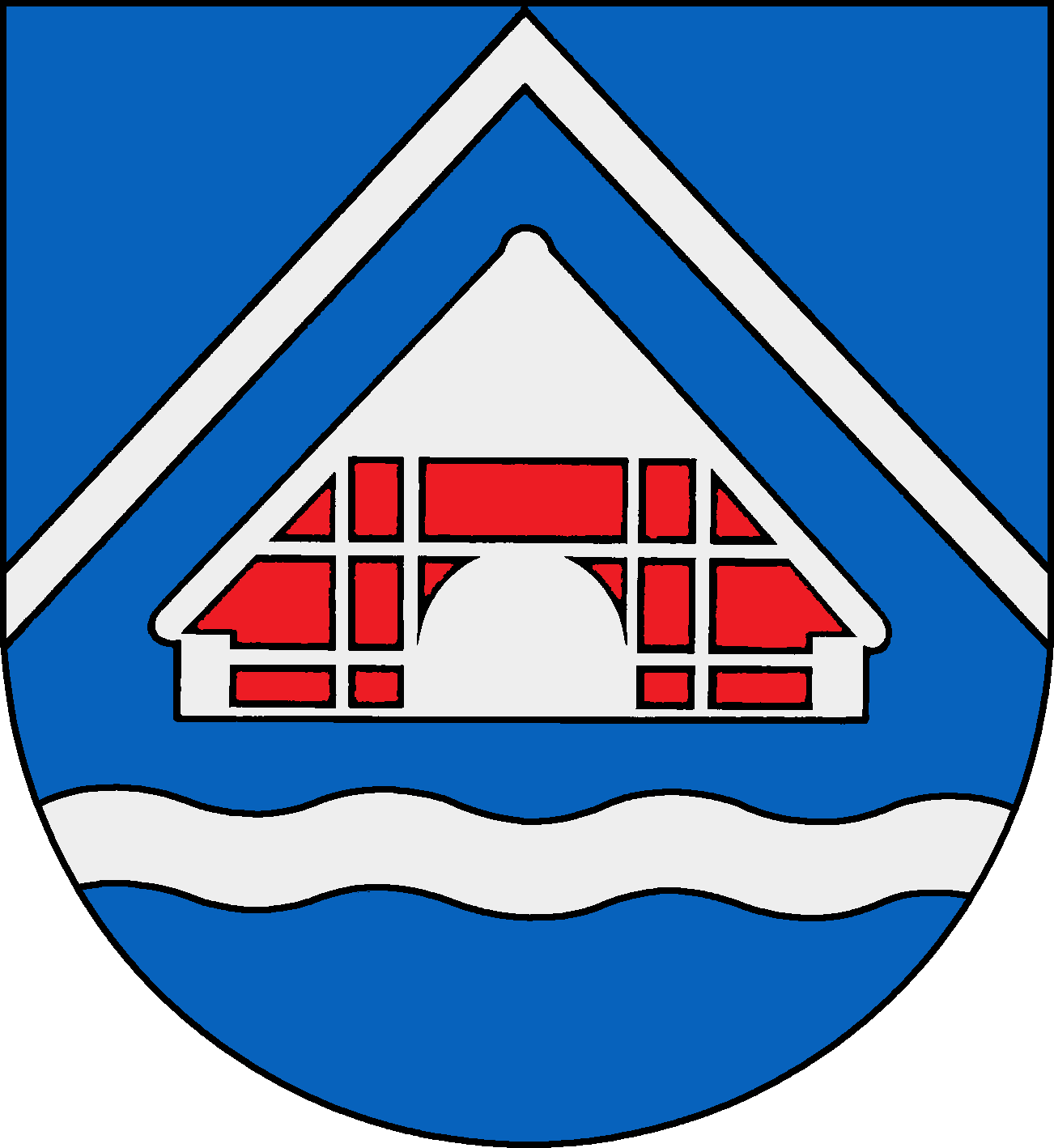 Coat of arms of the municipality Neuwittenbek in Schleswig-Holstein, Germany.